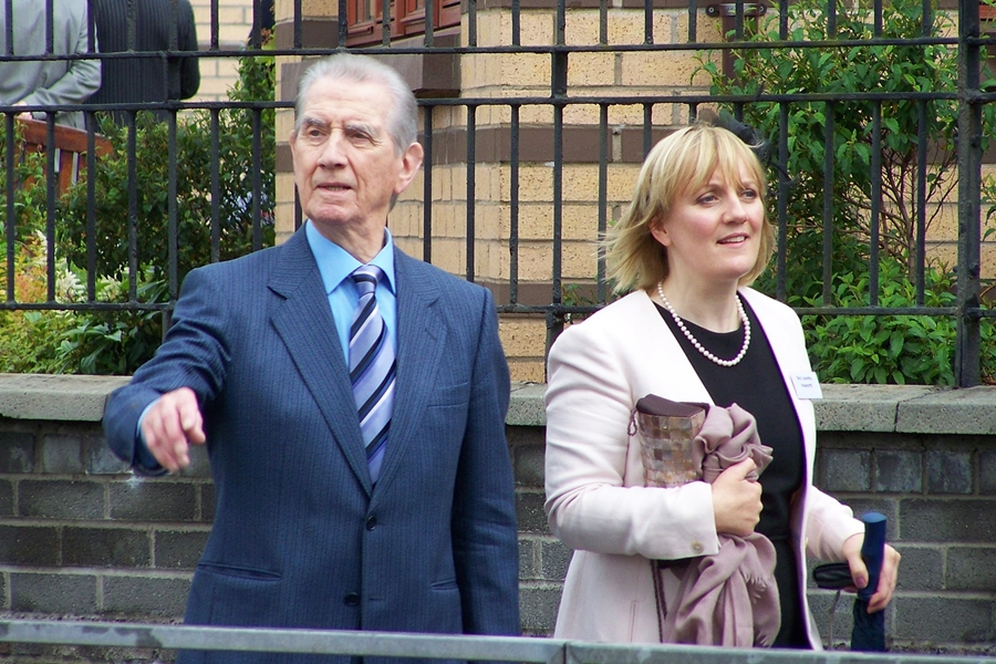 River City actor Johnny Beattie seen outside St. Margaret's Hospice in Clydebank for the Queen's visit